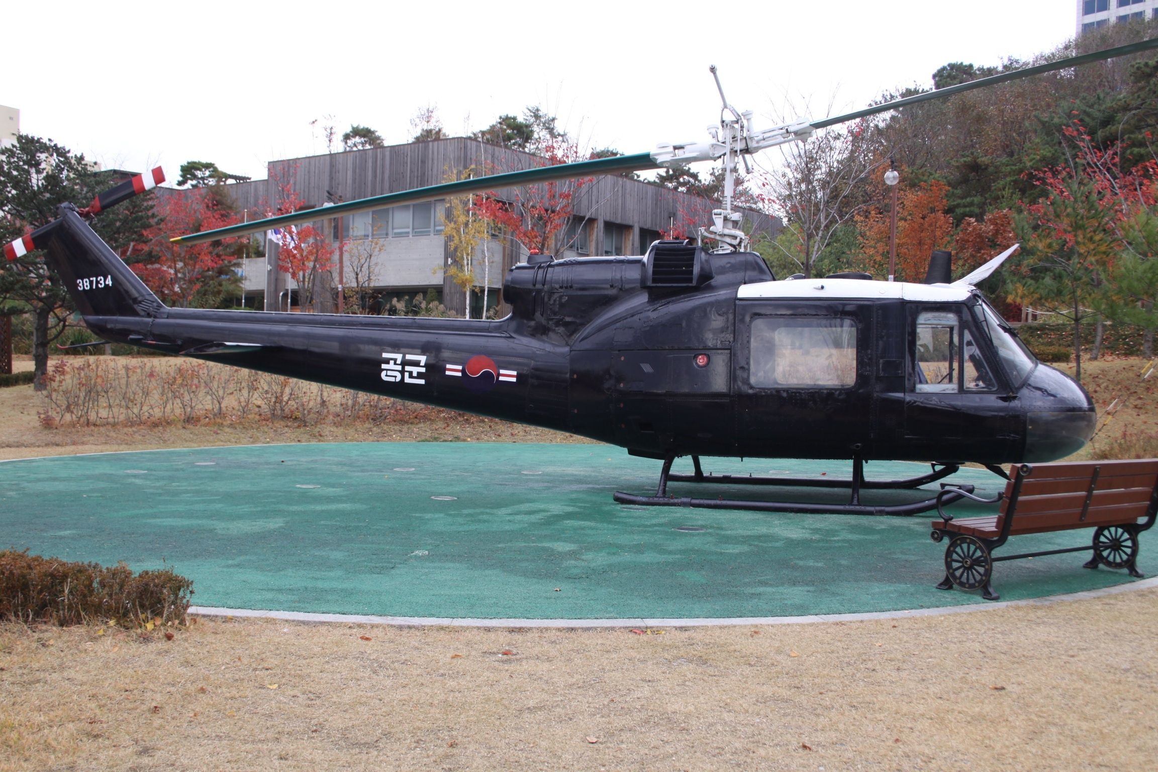 At Air Park in Boramae Park